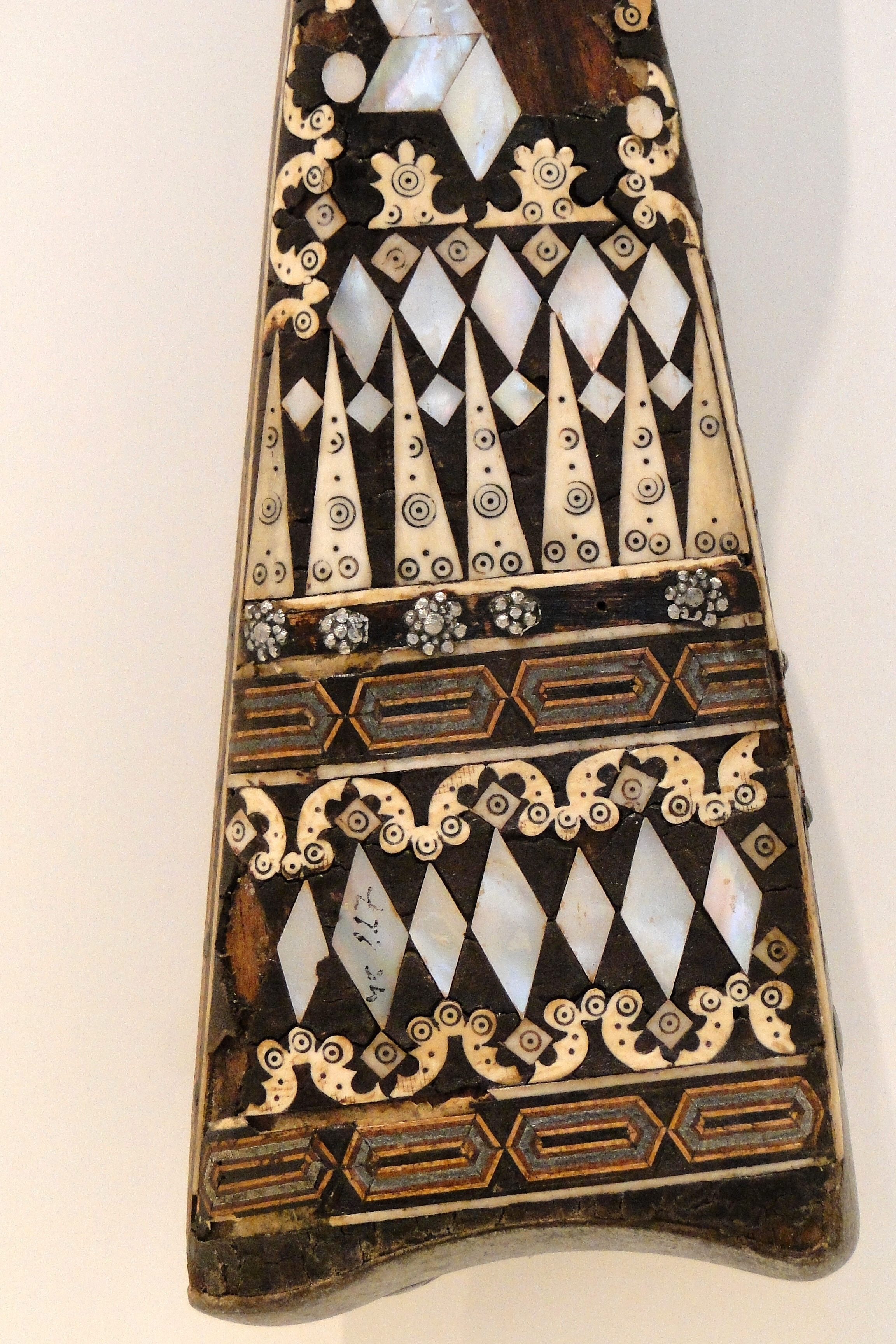 Rifle Butt with Mother-of-Pearl Inlay - Museum of 1914 - Sarajevo - Bosnia and Herzegovina